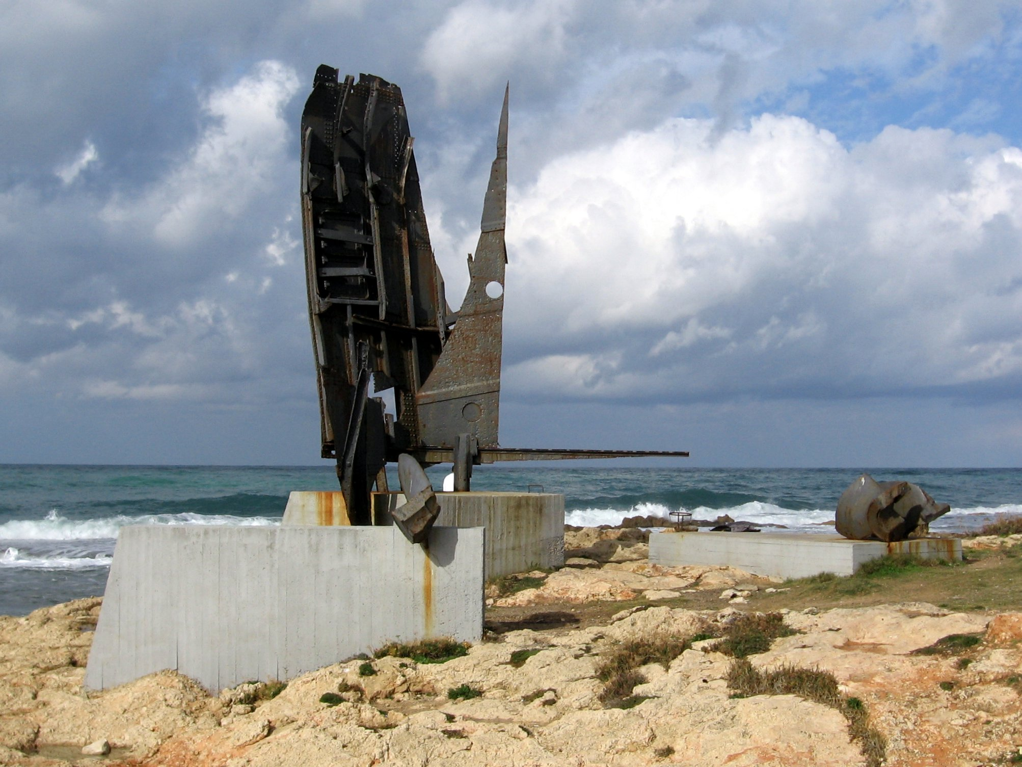 Sculpture